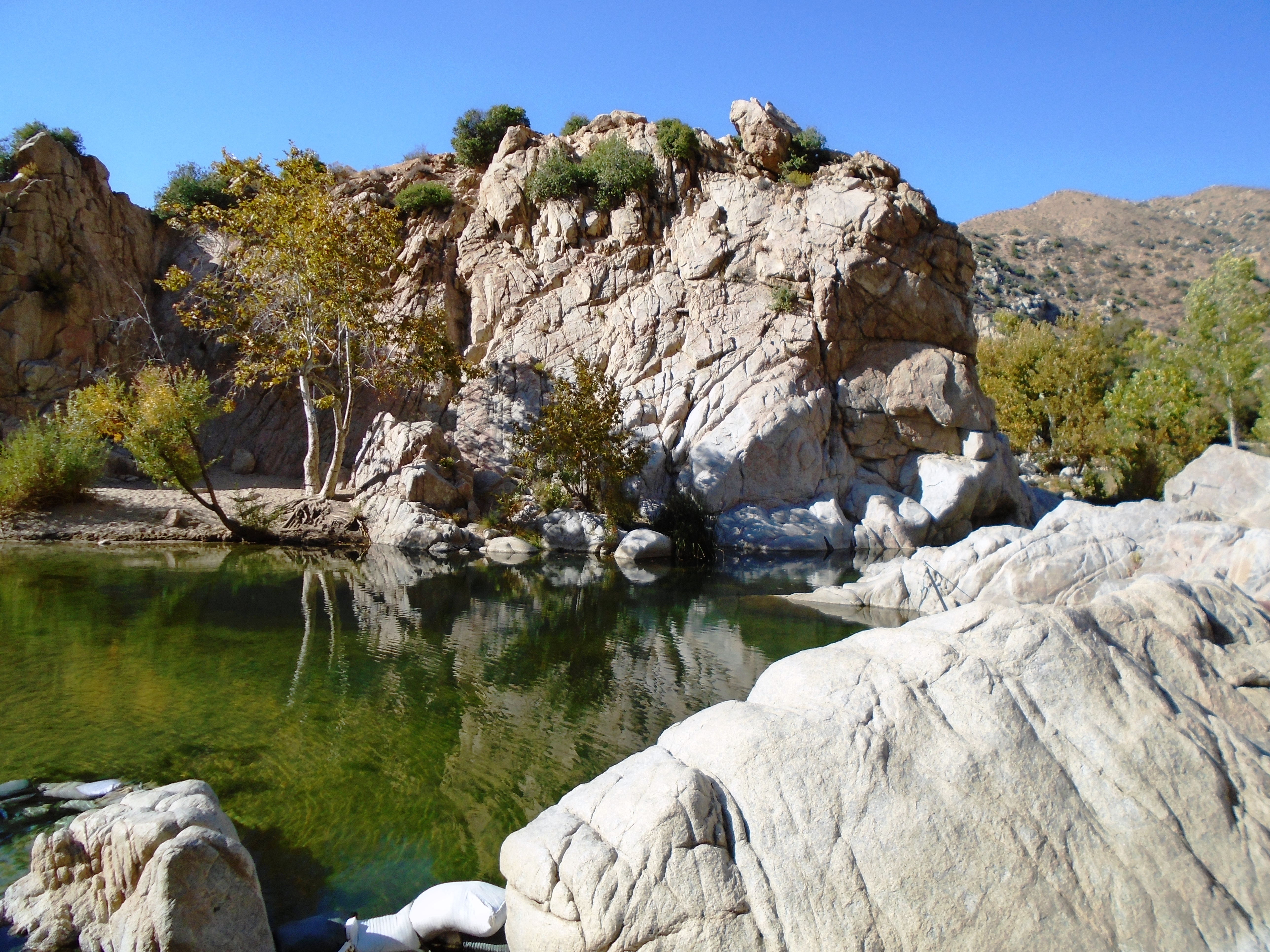 Deep Creek Hot Springs in the San Bernardino National Forest: Deep Creek.